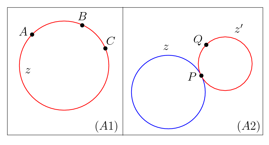 Moebius plane: axioms